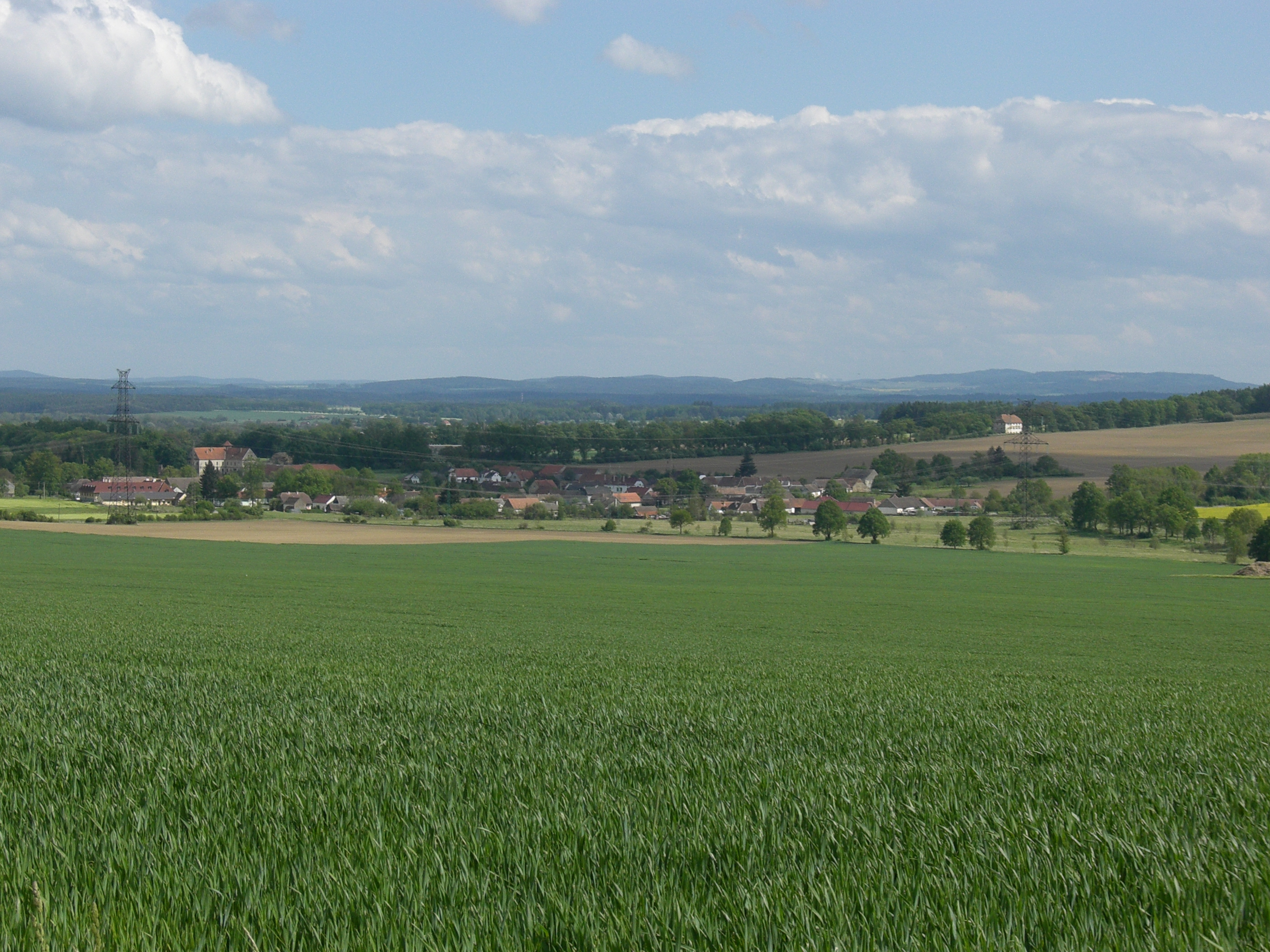 Rakovice village in Písek district, Czech Republic.